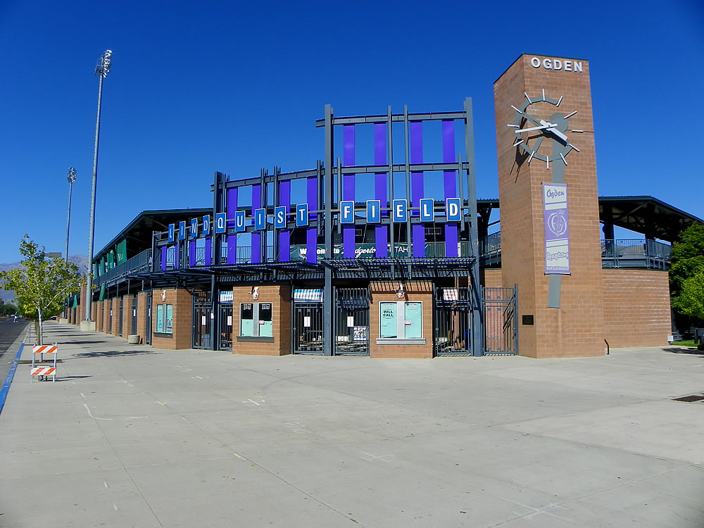 Lindquist Field — stadium in Ogden, Utah.